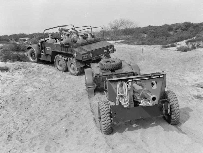 THE BRITISH ARMY PREPARES FOR WAR A Morris 6x4 Field Artillery Tractor of 96 Field Battery, Royal Artillery, tows one of the unit's Mk. IV 18 pounder Field Guns (on Mk V carriage) and limber over sandy terrain. Note the tracks fitted to the Morris tractor to give more purchase on the sand.